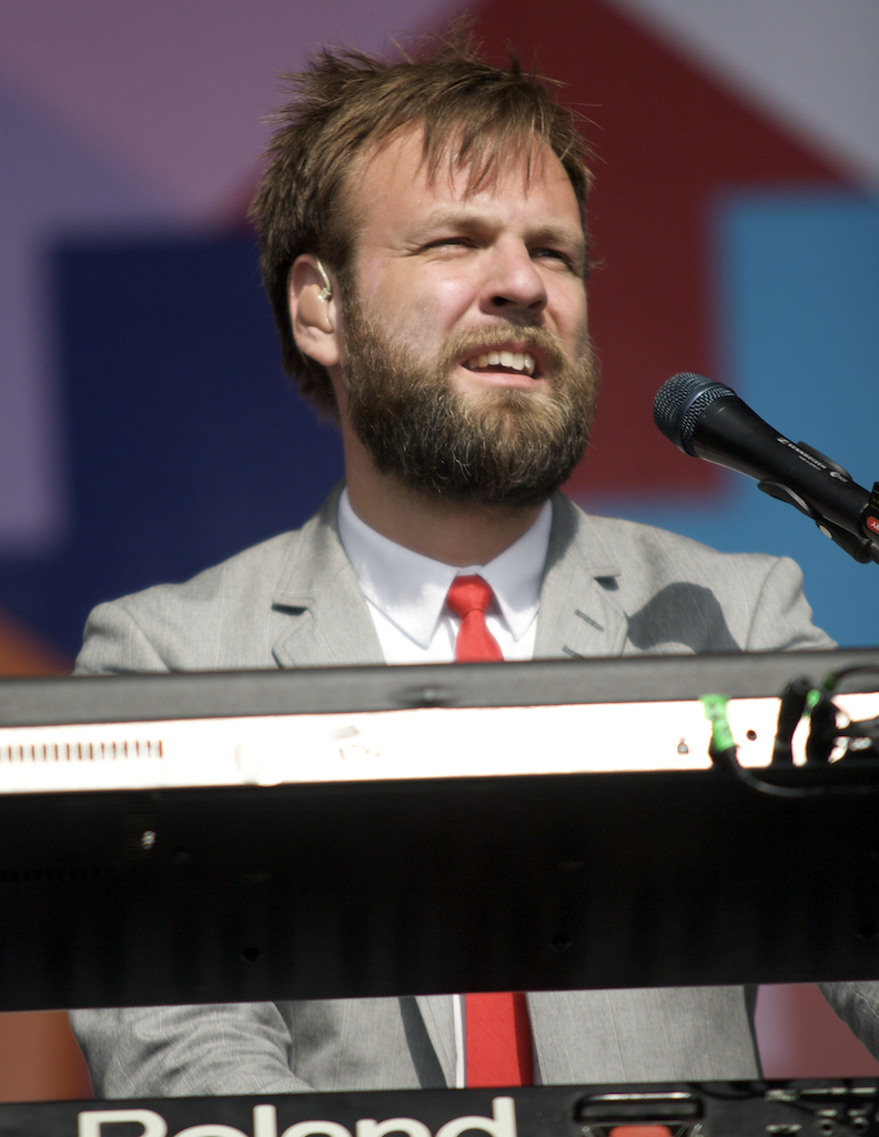 Henrik Lindstrand, keyboardplayer from the danish band Kashmir.